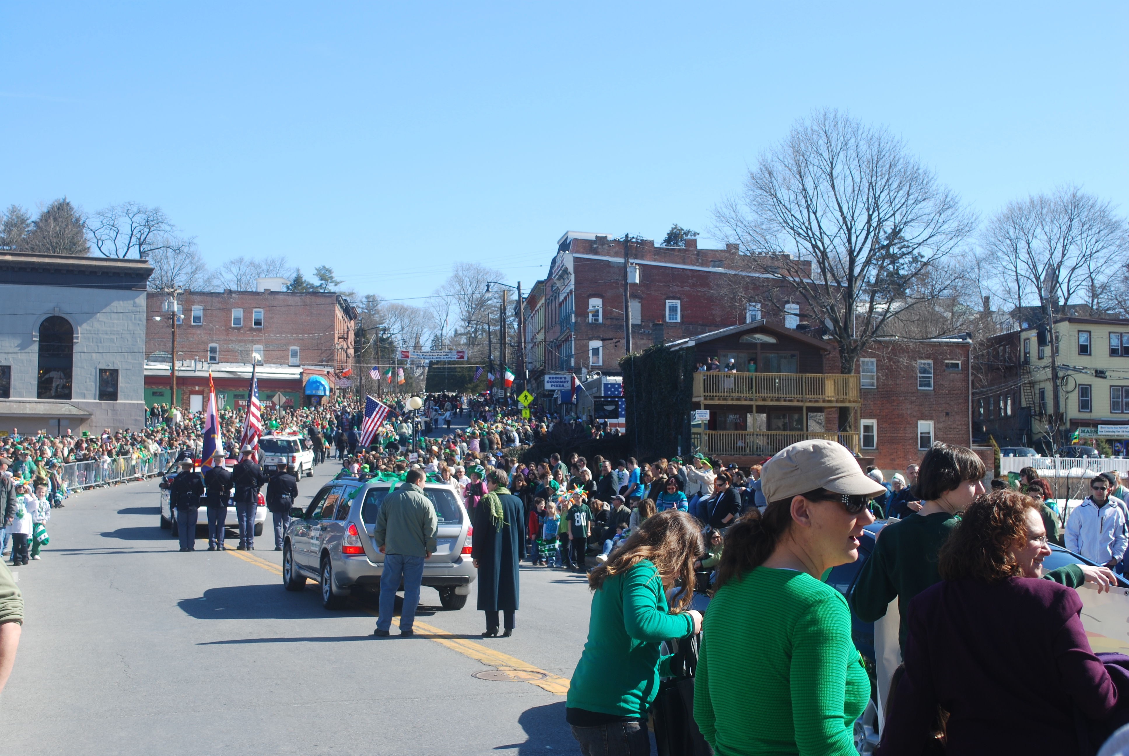 The 2010 St. Patrick's Day parade in Wappingers Falls, New York.